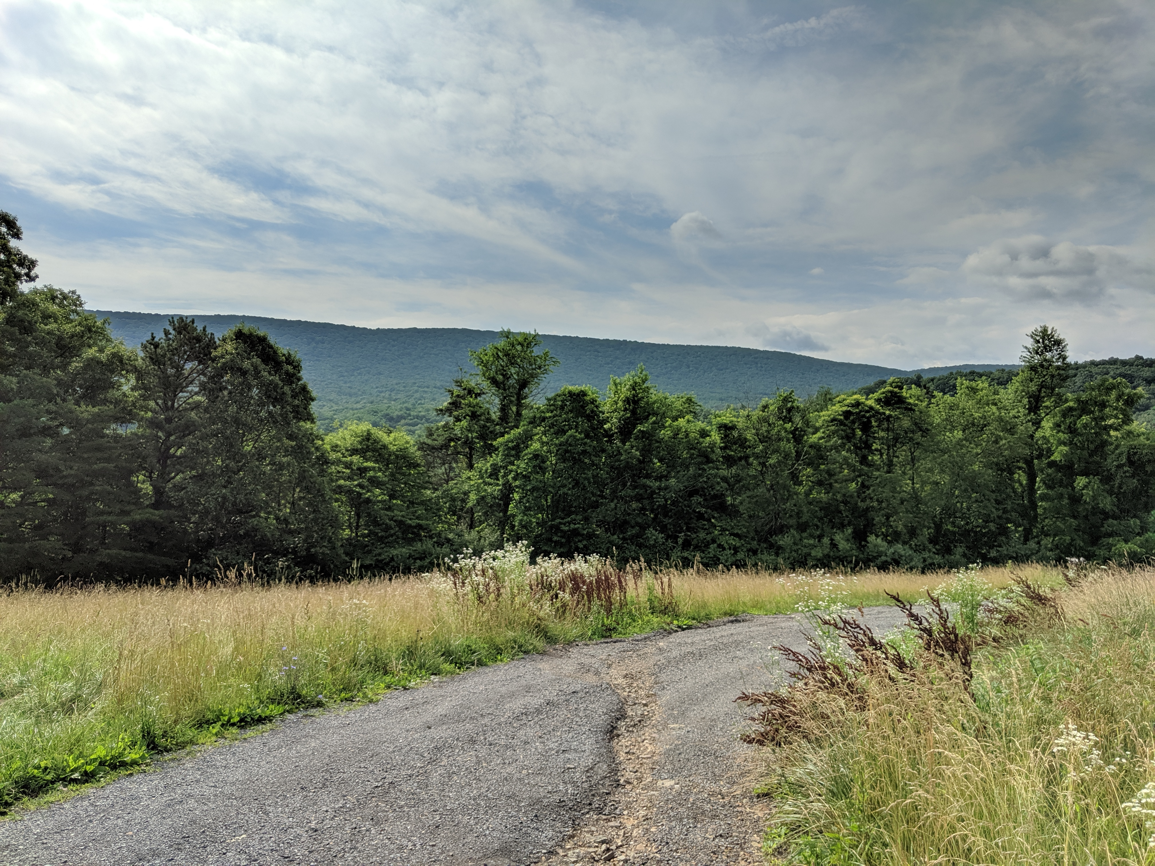 View of Sleepy Creek Mountain from a hill in New Hope, Morgan County, West Virginia.